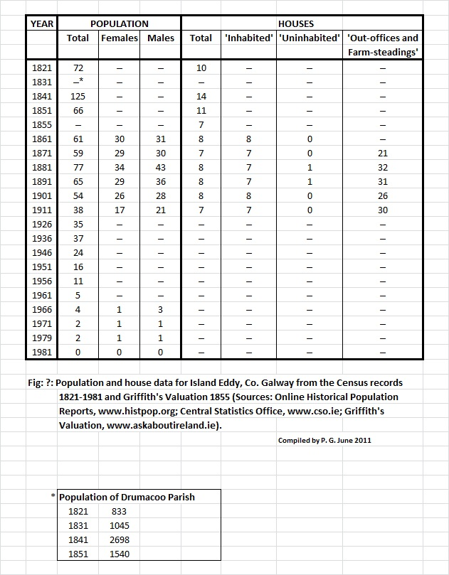 Table showing the population totals by decade from 1821 (records began) to 1981 (island abandoned) alongside data on houses and outbuildings from 1861 to 1911. The information was extracted from UK census data and Griffith's Valuation of Ireland.